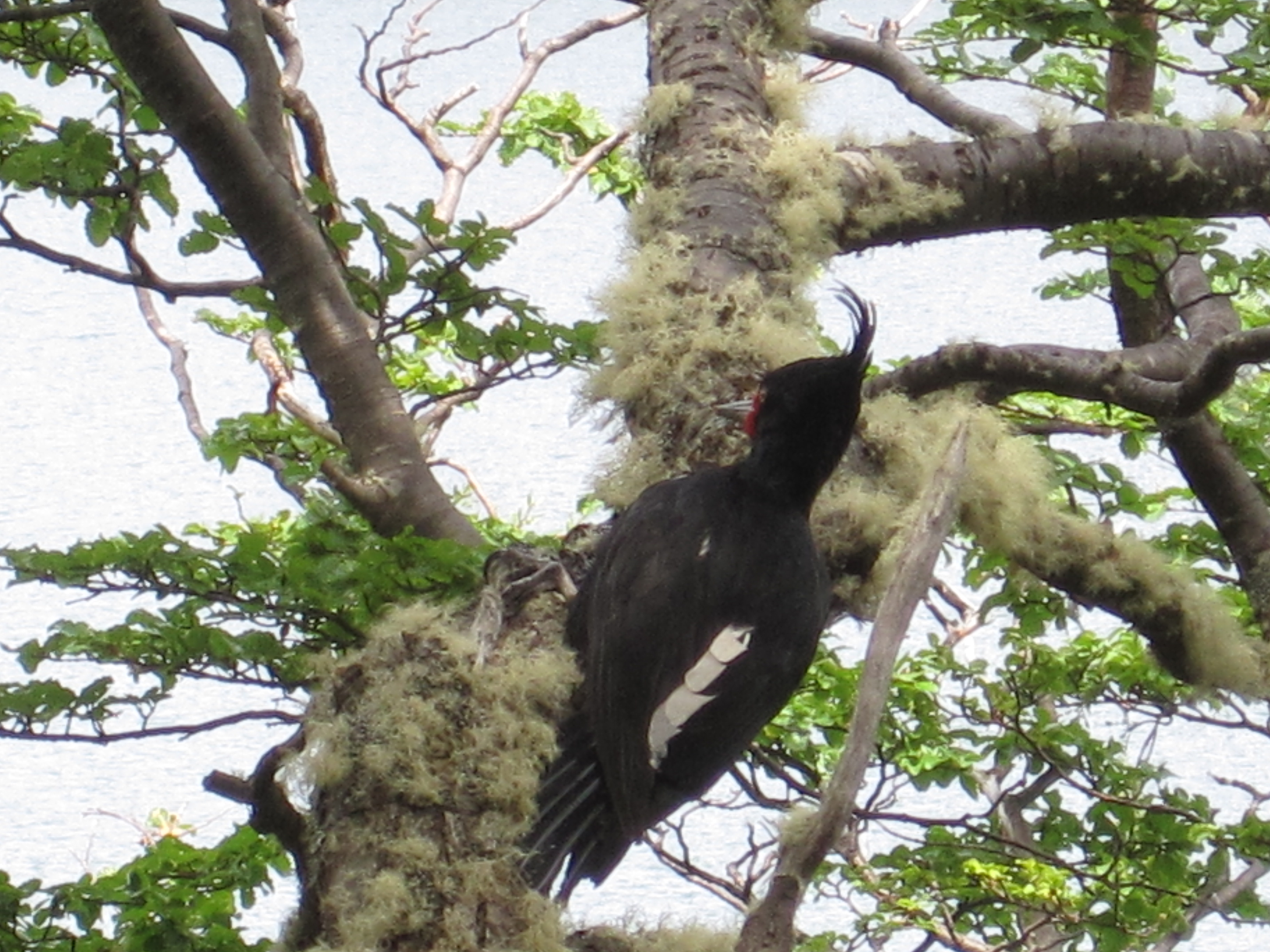 Magellanic Woodpecker, on the shoreline trail east of Ushuaia, Argentina.